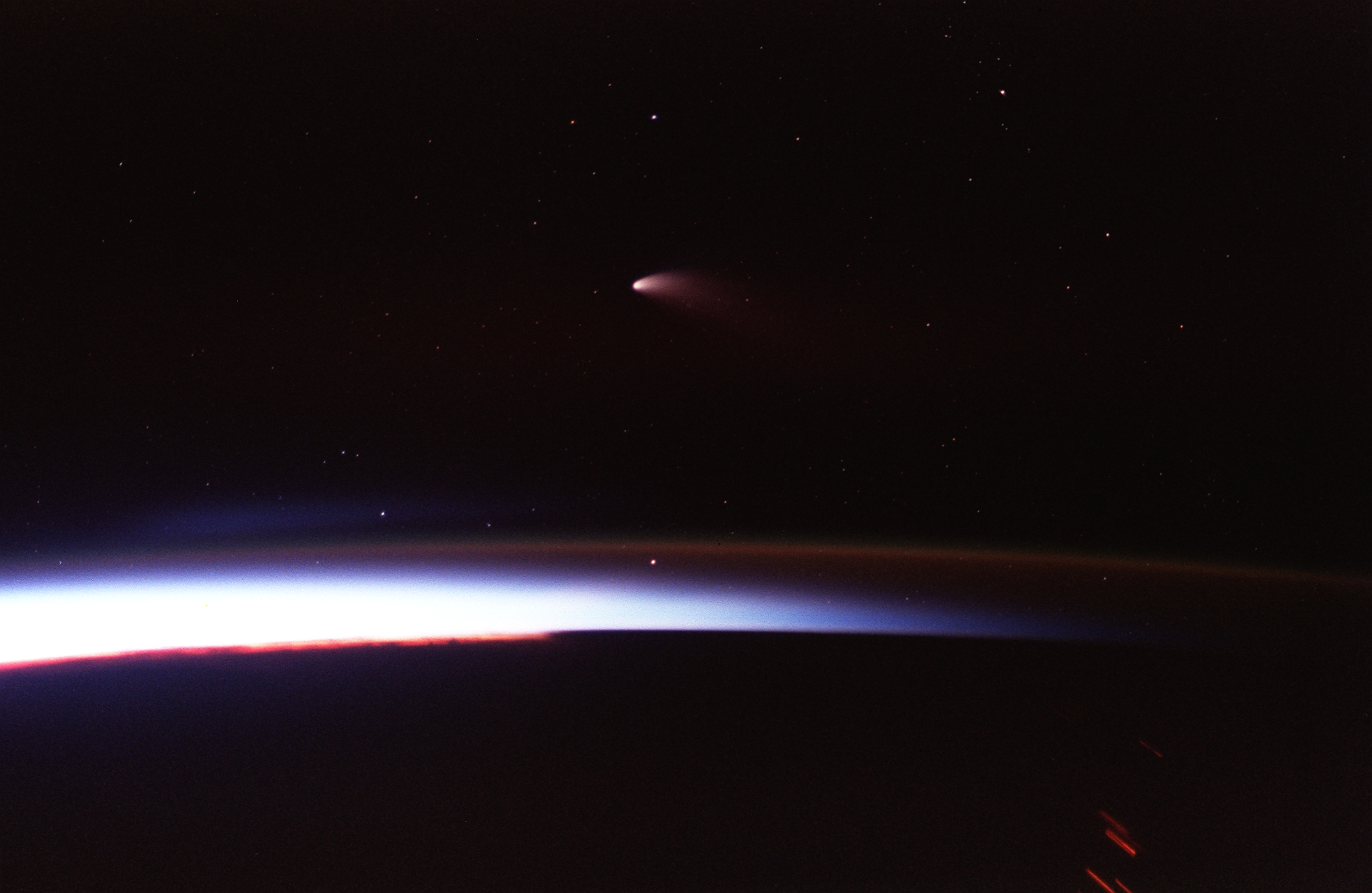 A 35mm camera was used to record this time-exposed image of Comet Hale-Bopp at sunset. As a spin-off of the more lengthy time exposure, city lights and petroleum fires are seen as distorted streaks.